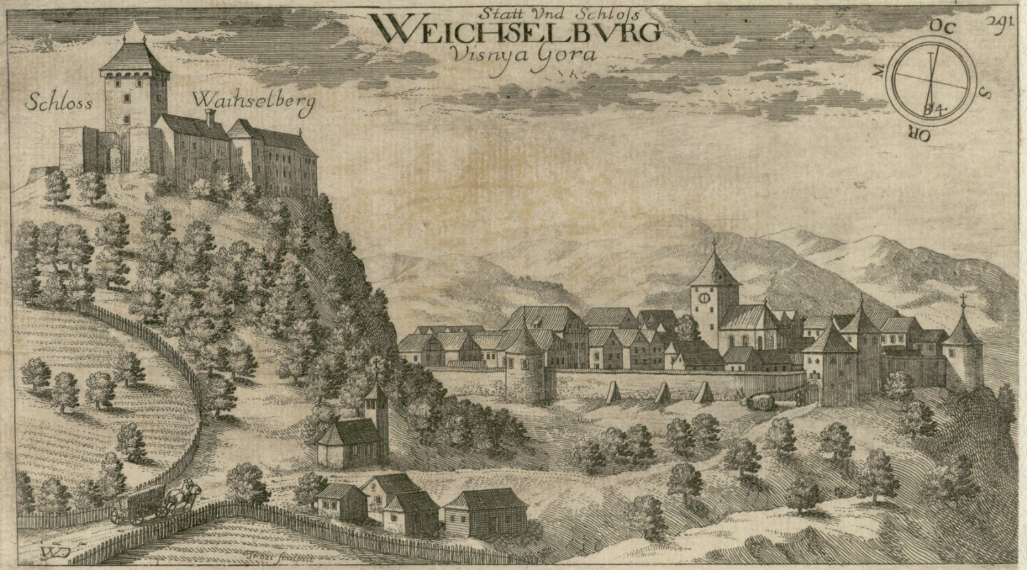 Višnja Gora Castle